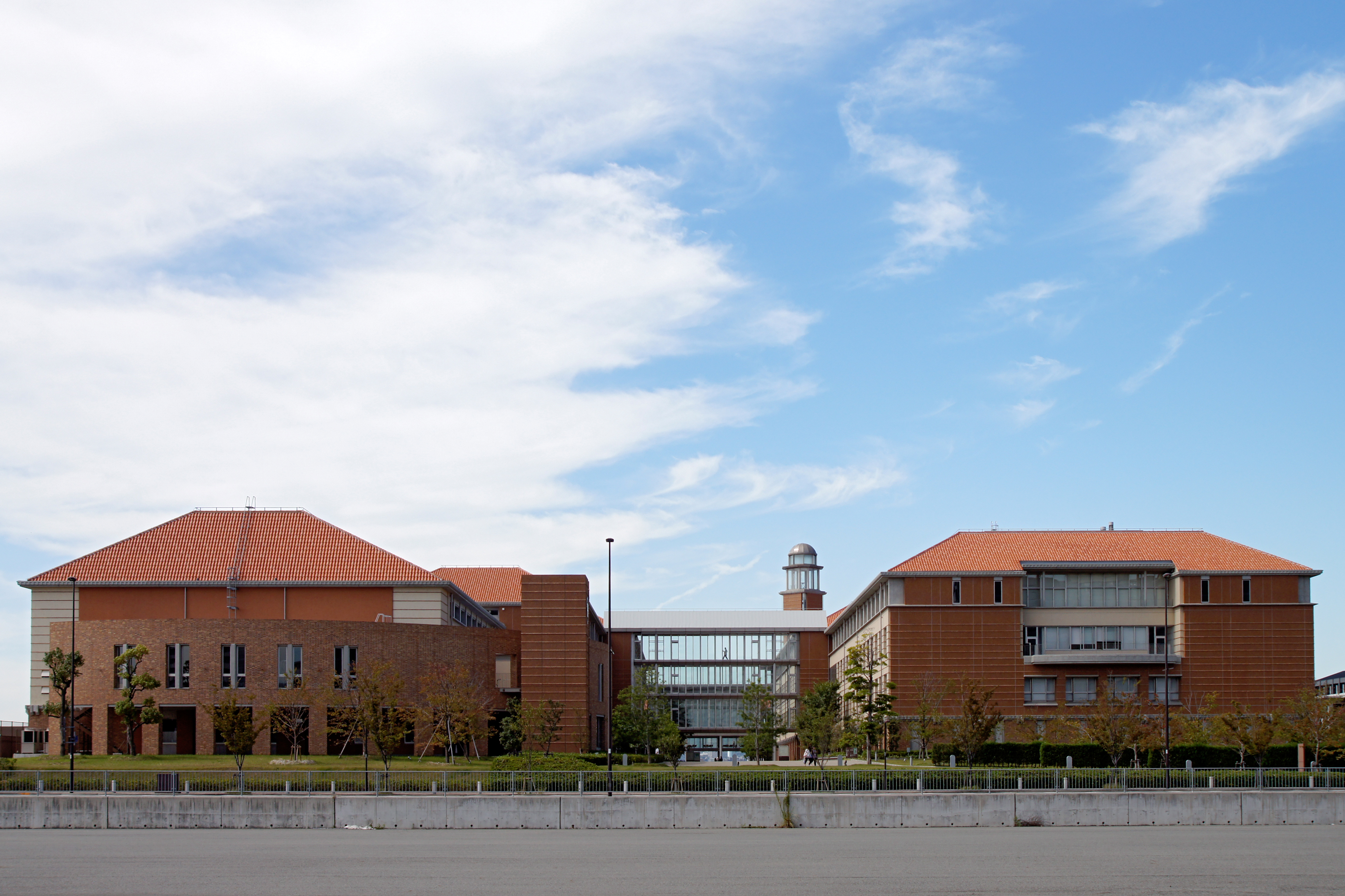 Hyogo_University_of_Health_Sciences in Kobe, Hyogo prefecture, Japan.